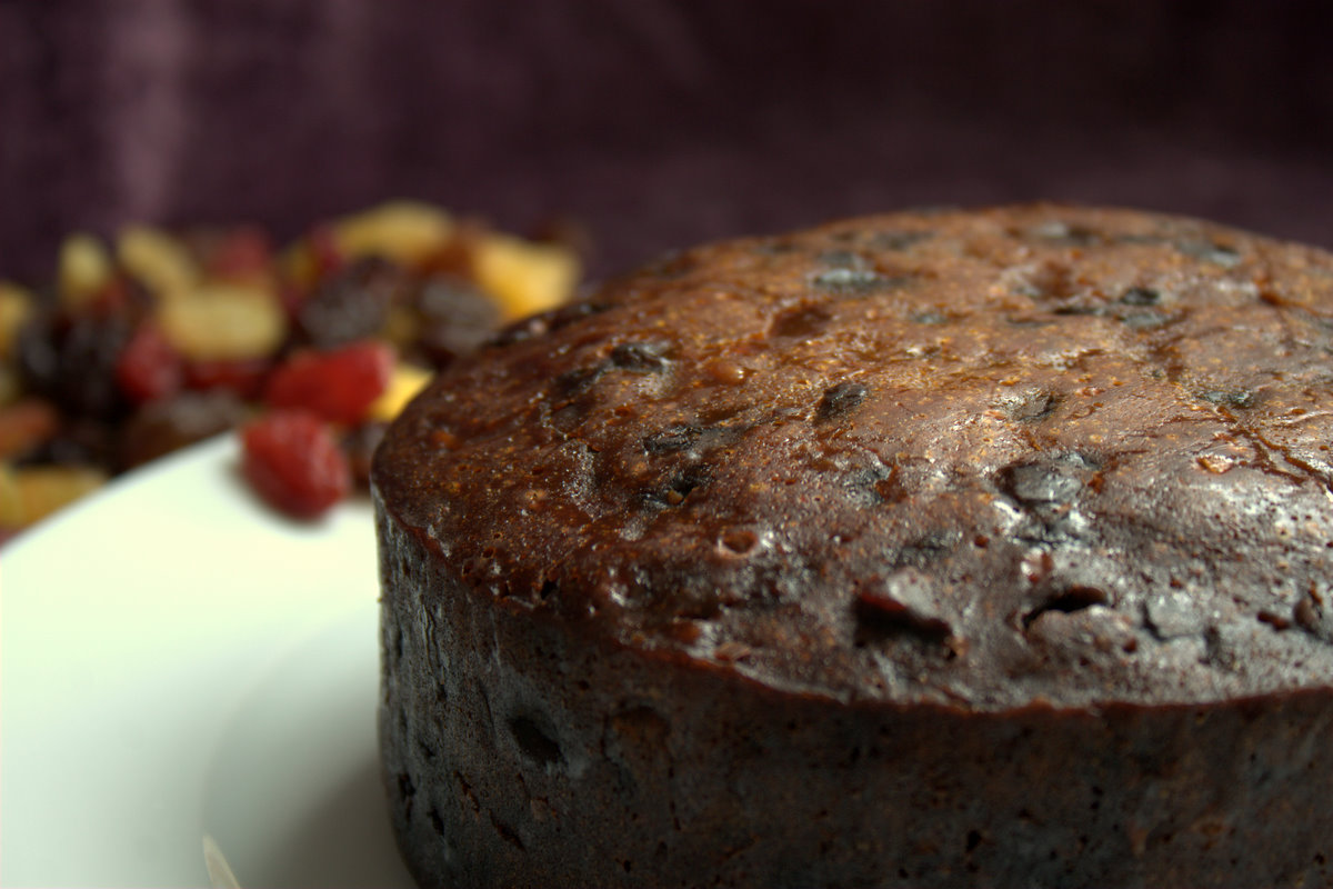 Fruit cake photographed for use on the Seriously Good Cake website